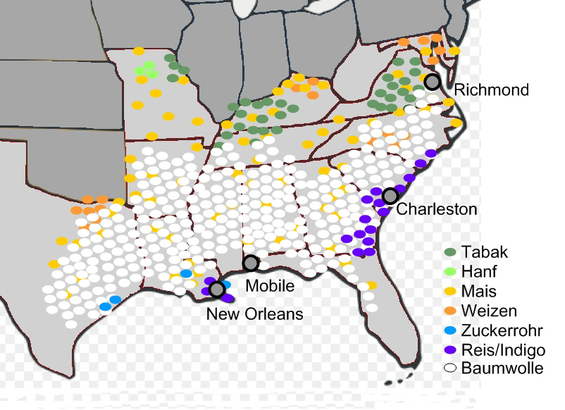 Map of the main crops in the Southern States of the U. S., 1860